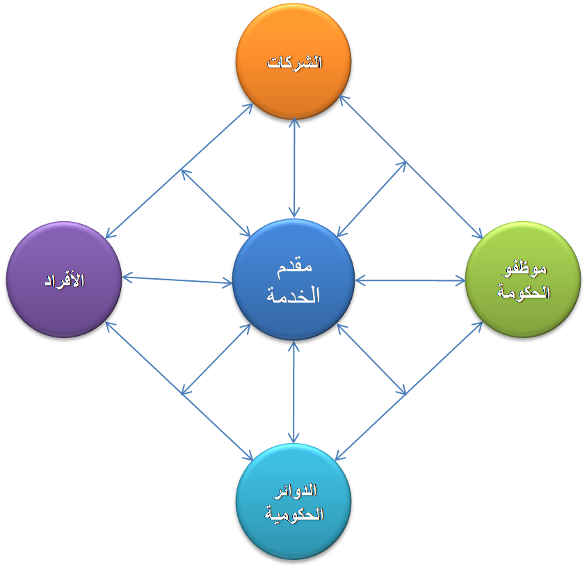 Diagram Showing the function of e-government